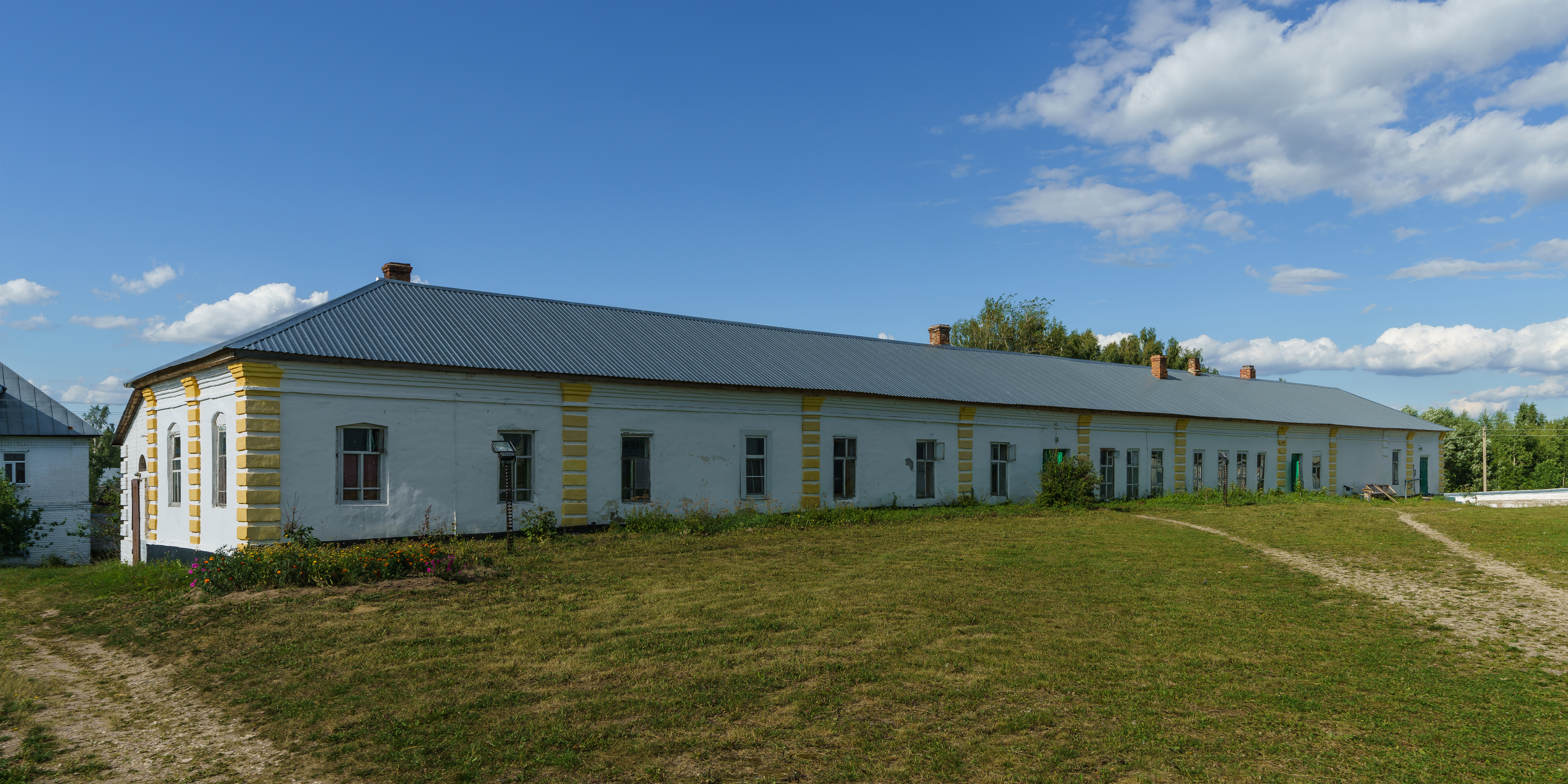 Nikolo-Tikhonov Monastery in Timiryazevo, Ivanovo Oblast, Russia.